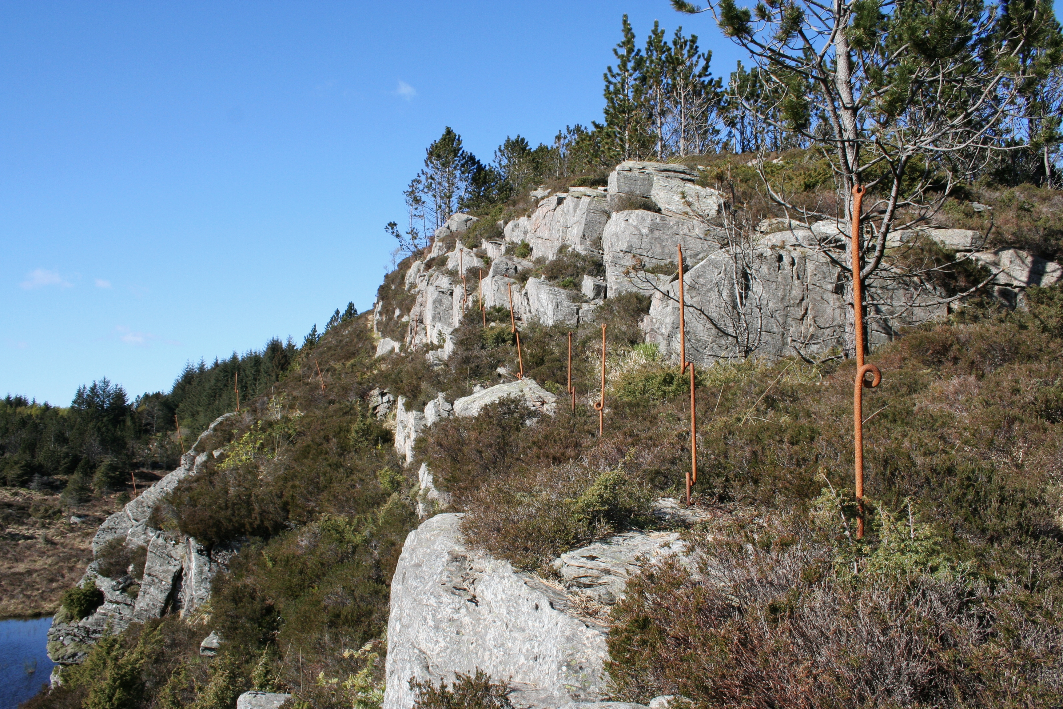 German WWII fence posts for barbed wire at Fjell Festning, Sotra in Hordaland, Norway.